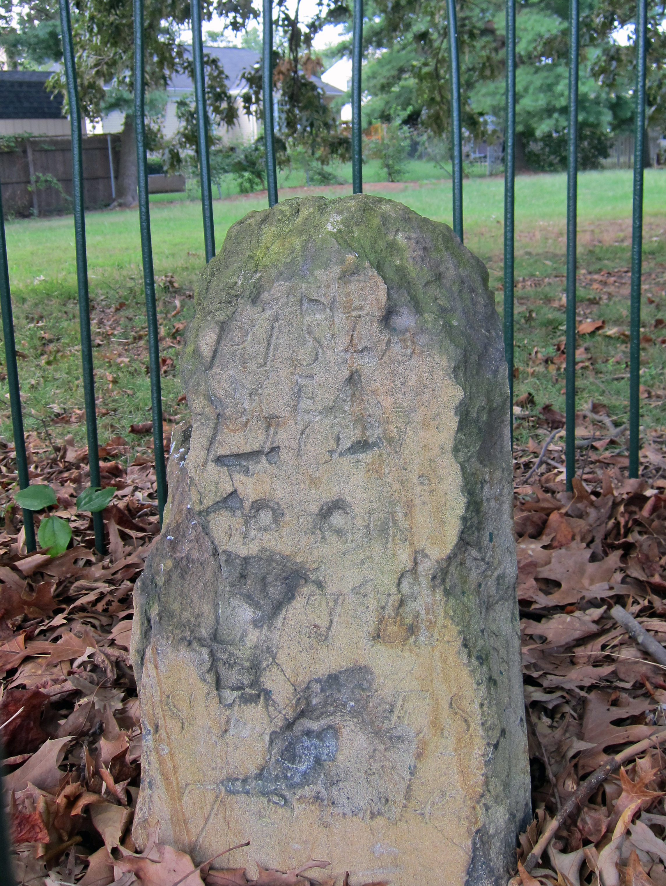 Southwest No. 7 Boundary Marker of the Original District of Columbia